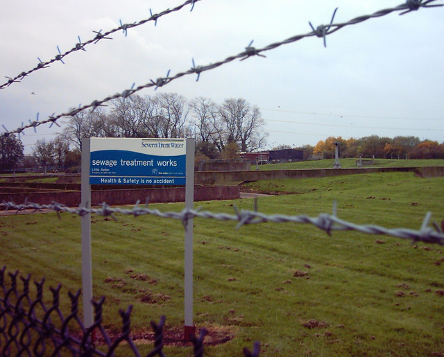 Little Aston Sewage Works